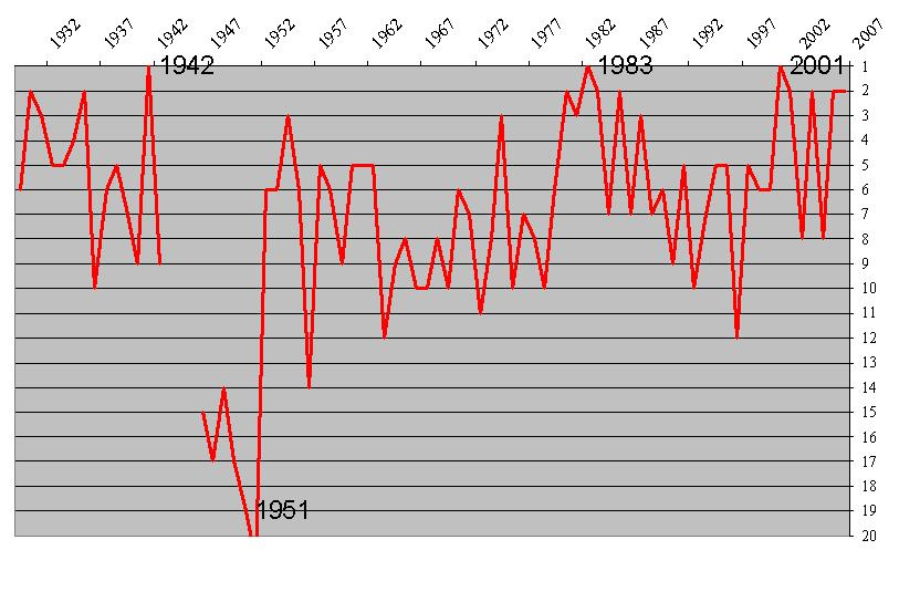 Histroical AS Roma positions in Serie A